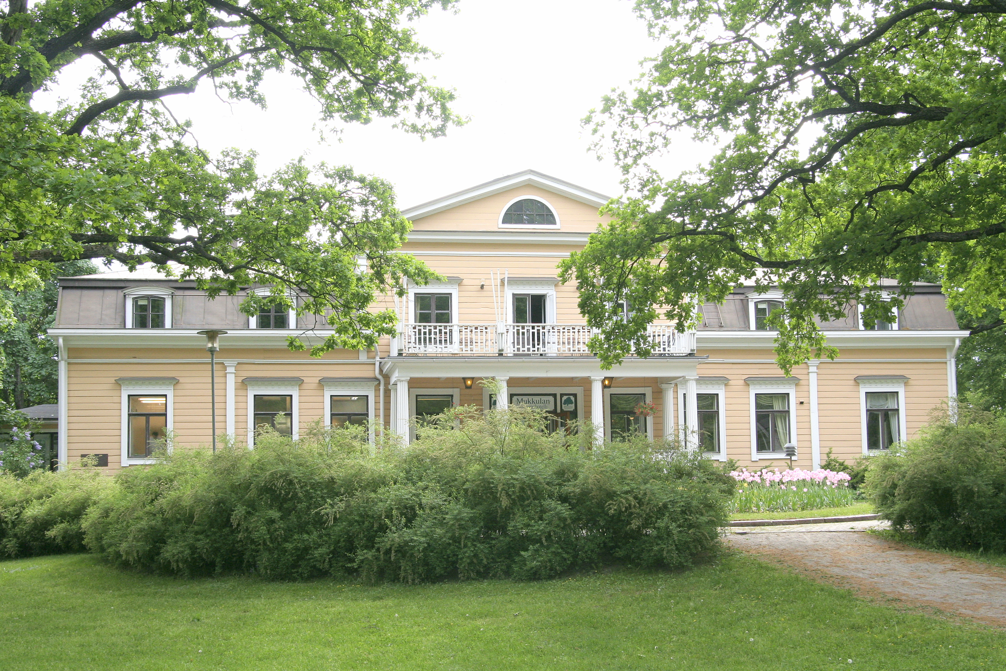 Mukkula manor, Lahti, Finland